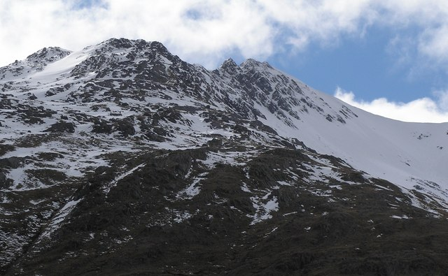 Gleouraich Taken from glen to the north south of the South Clunie ridge